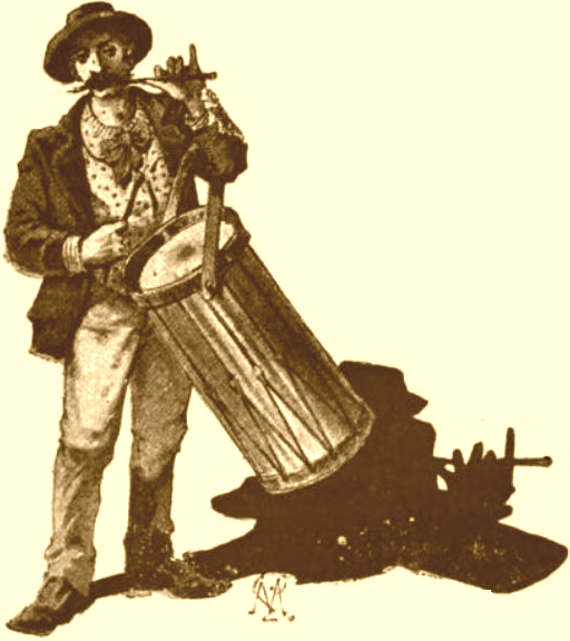 Tambourinaire playing galoubet and tambourin (French pipe and tabor).